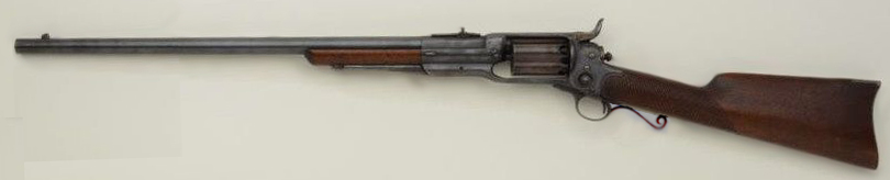 Colt Root Sporting Rifle